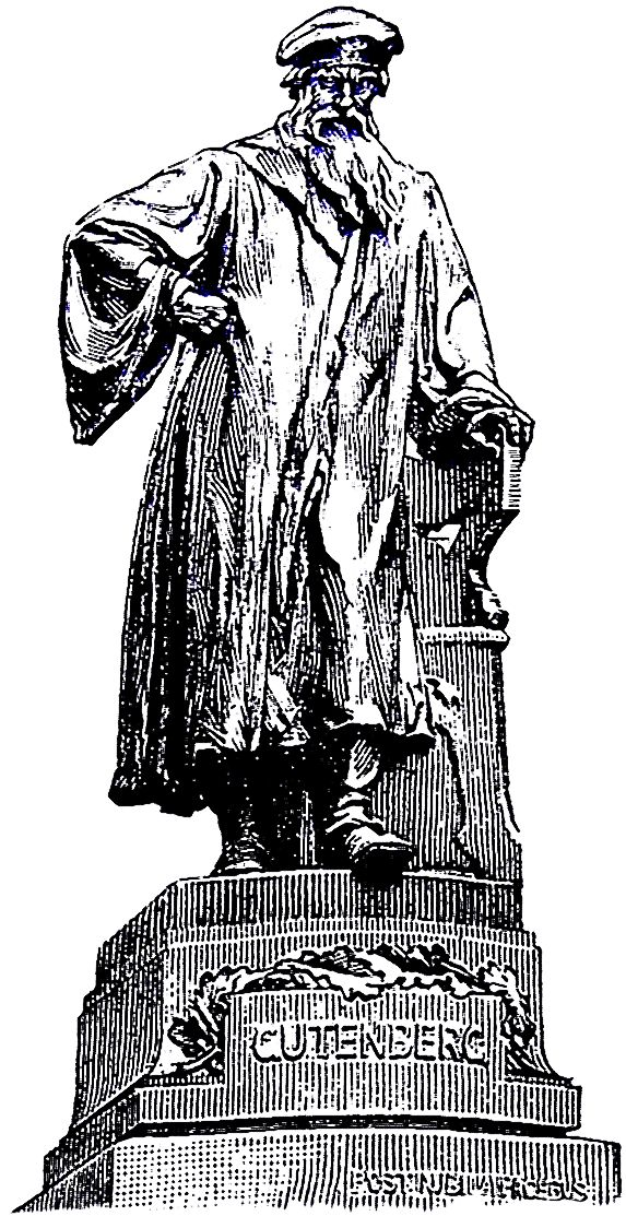 Johannes Gutenberg